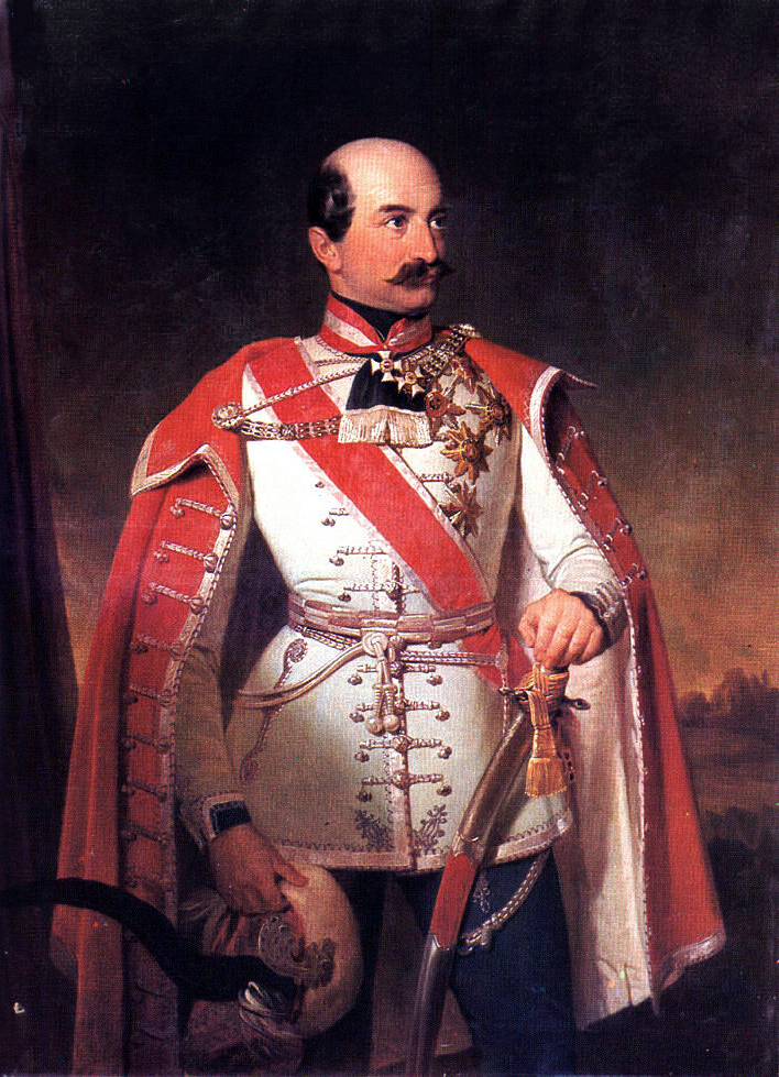 Portrait of Croatian Josip Jelačić (1801-1859)